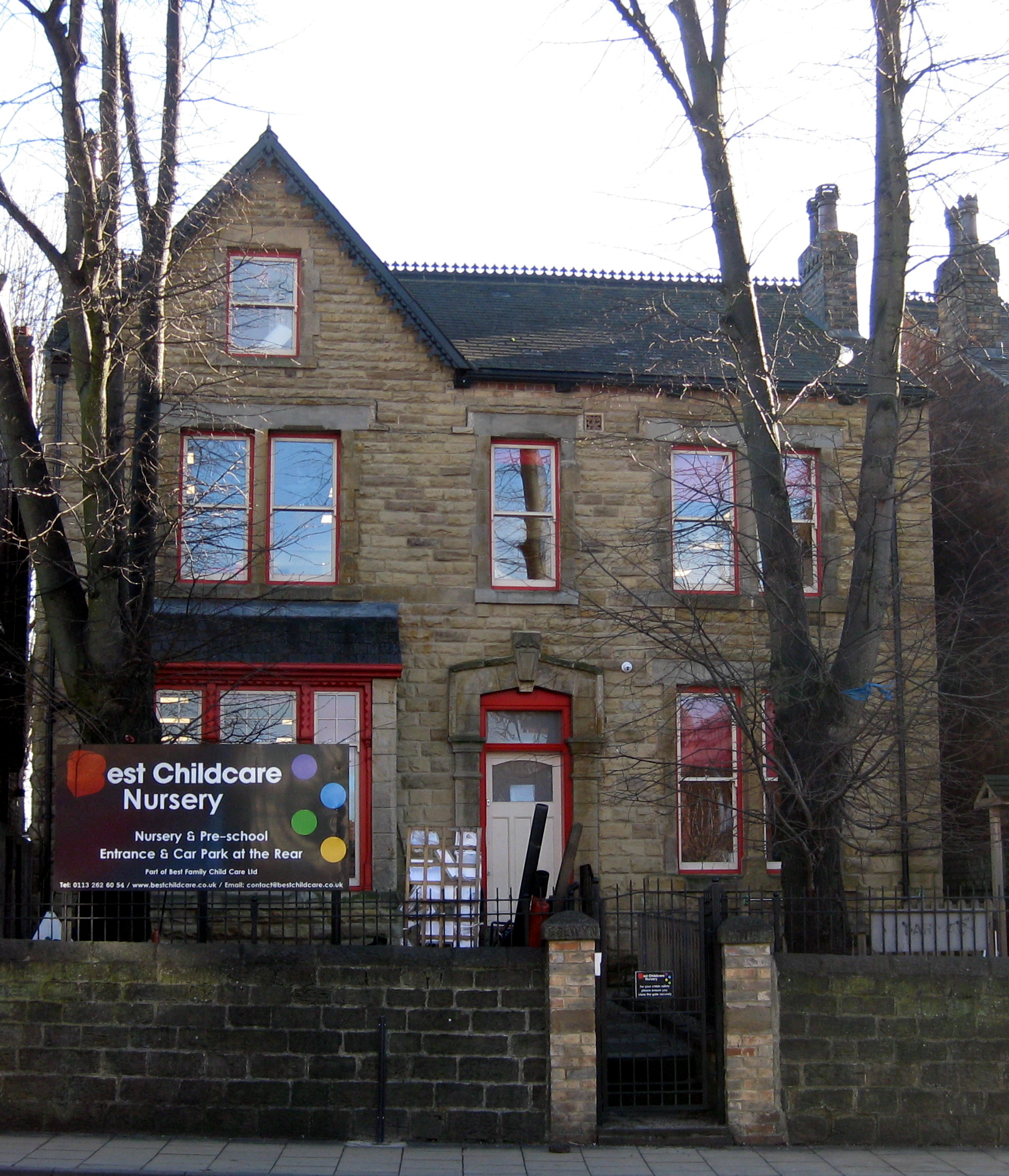 Number 138 Chapeltown Road, Leeds LS7 4EE. Presently a nursery, formerly the location of a Sikh place of worship